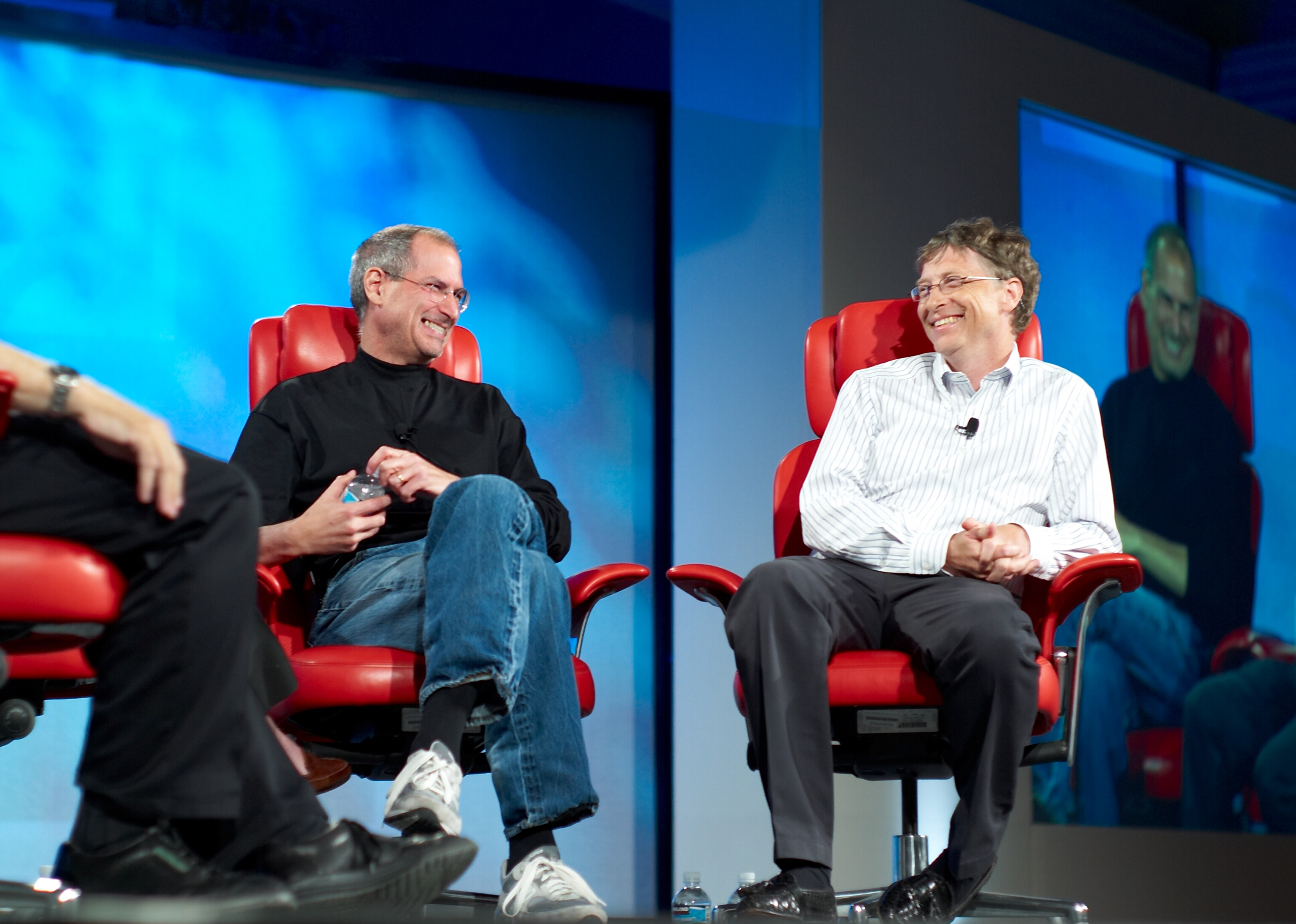 Walter Mossberg and Kara Swisher interview Steve Jobs and Bill Gates at 'D5: All Things Digital' conference in Carlsbad, California, in 2007. Quotes made during the time of the photograph. [1] Kara: "What you think each has contributed to the computer and technology industry, starting with you, Steve, for Bill, and vice versa." Steve: "Bill built the first software company in the industry and I think he built the first software company before anybody really in our industry knew what a software company was, except for these guys. And that was huge. That was really huge. And the business model that they ended up pursuing turned out to be the one that worked really well, you know, for the industry. I think the biggest thing was, Bill was really focused on software before almost anybody else had a clue that it was really the software." Walt: "Bill, how about the contribution of Steve and Apple?" Bill: "Well, first, I want to clarify: I’m not Fake Steve Jobs. [Peals of laughter.] What Steve’s done is quite phenomenal, and if you look back to 1977, that Apple II computer, the idea that it would be a mass-market machine, you know, the bet that was made there by Apple uniquely—there were other people with products, but the idea that this could be an incredible empowering phenomenon, Apple pursued that dream. Then one of the most fun things we did was the Macintosh and that was so risky. People may not remember that Apple really bet the company. Lisa hadn’t done that well, and some people were saying that general approach wasn’t good, but the team that Steve built even within the company to pursue that, even some days it felt a little ahead of its time—I don’t know if you remember that Twiggy disk drive and…"